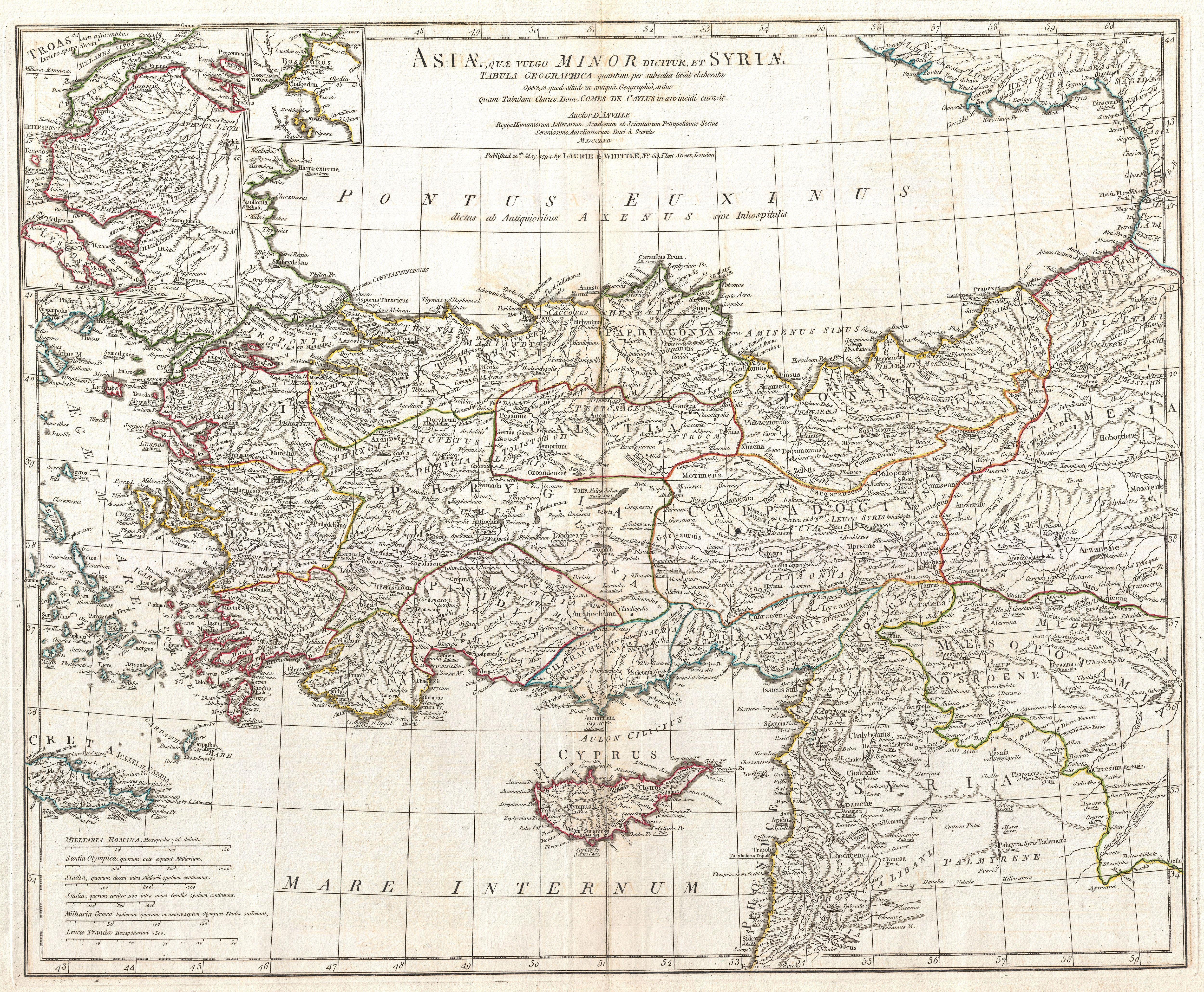 A large and dramatic J. B. B. D'Anville map of Asia Minor in antiquity. Covers from Greece (Graecia) and the Aegean Sea eastward to include all of Asia Minor as far as Armenia. Extends south as far as the ancient city of Sidon in modern day Lebanon. Includes the modern day nations of Turkey, Syria, Cyprus and Lebanon, along with parts of adjacent Greece and Armenia. Details mountains, rivers, cities, roadways, and lakes with political divisions highlighted in outline color. Title area appears at top center. Includes six distance scales, bottom left, referencing various measurement systems common in antiquity. Text in Latin and English. Drawn by J. B. B. D'Anville in 1764 and published in 1794 by Laurie and Whittle, London.